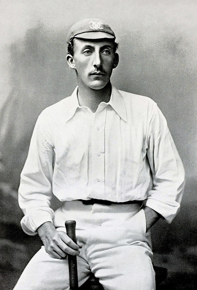 Sport, Cricket, Circa 1895, Lionel Palairet